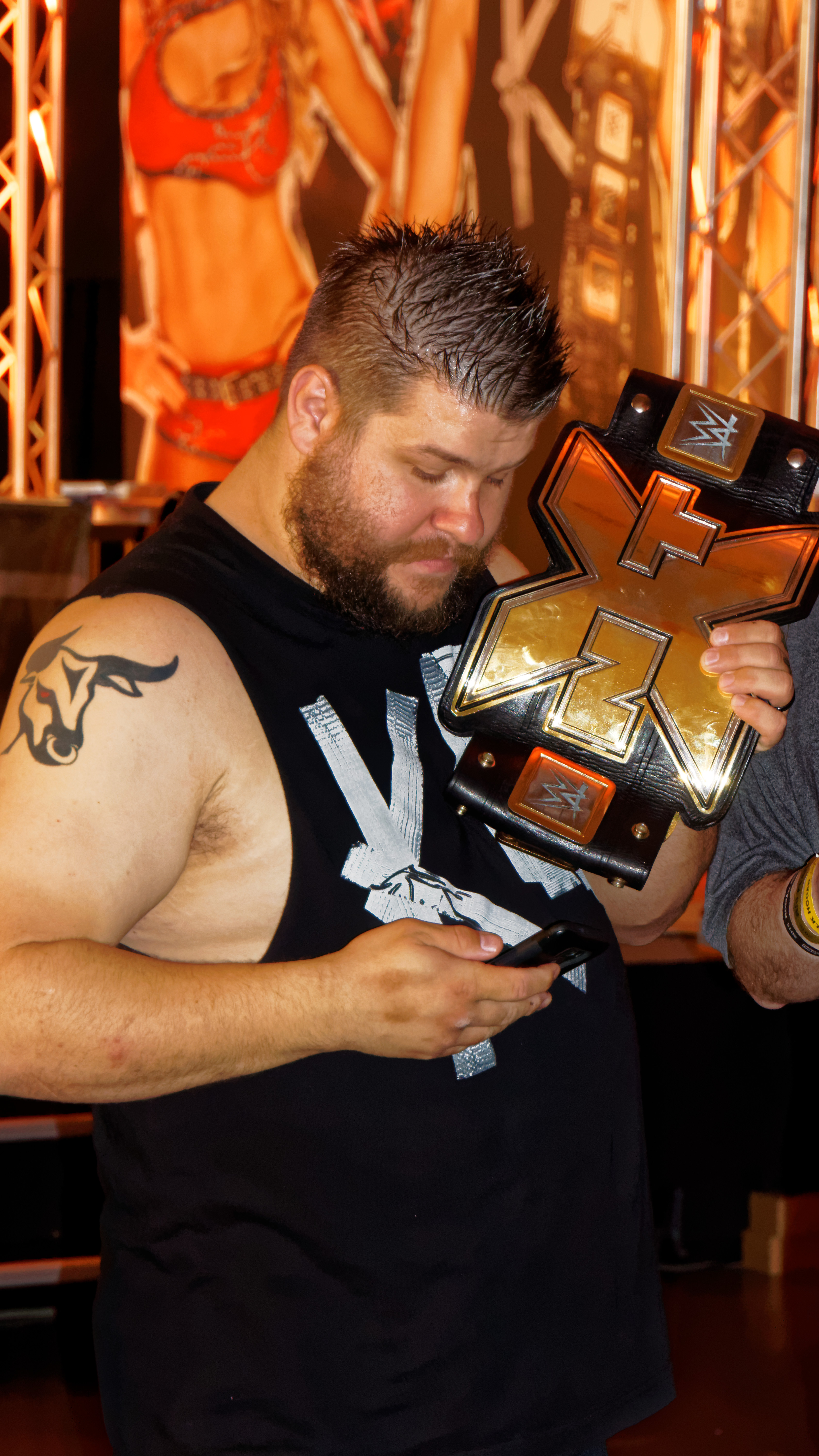 Kevin Owens with NXT Championship in March 2015